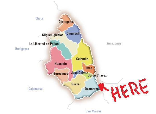 Ubicación